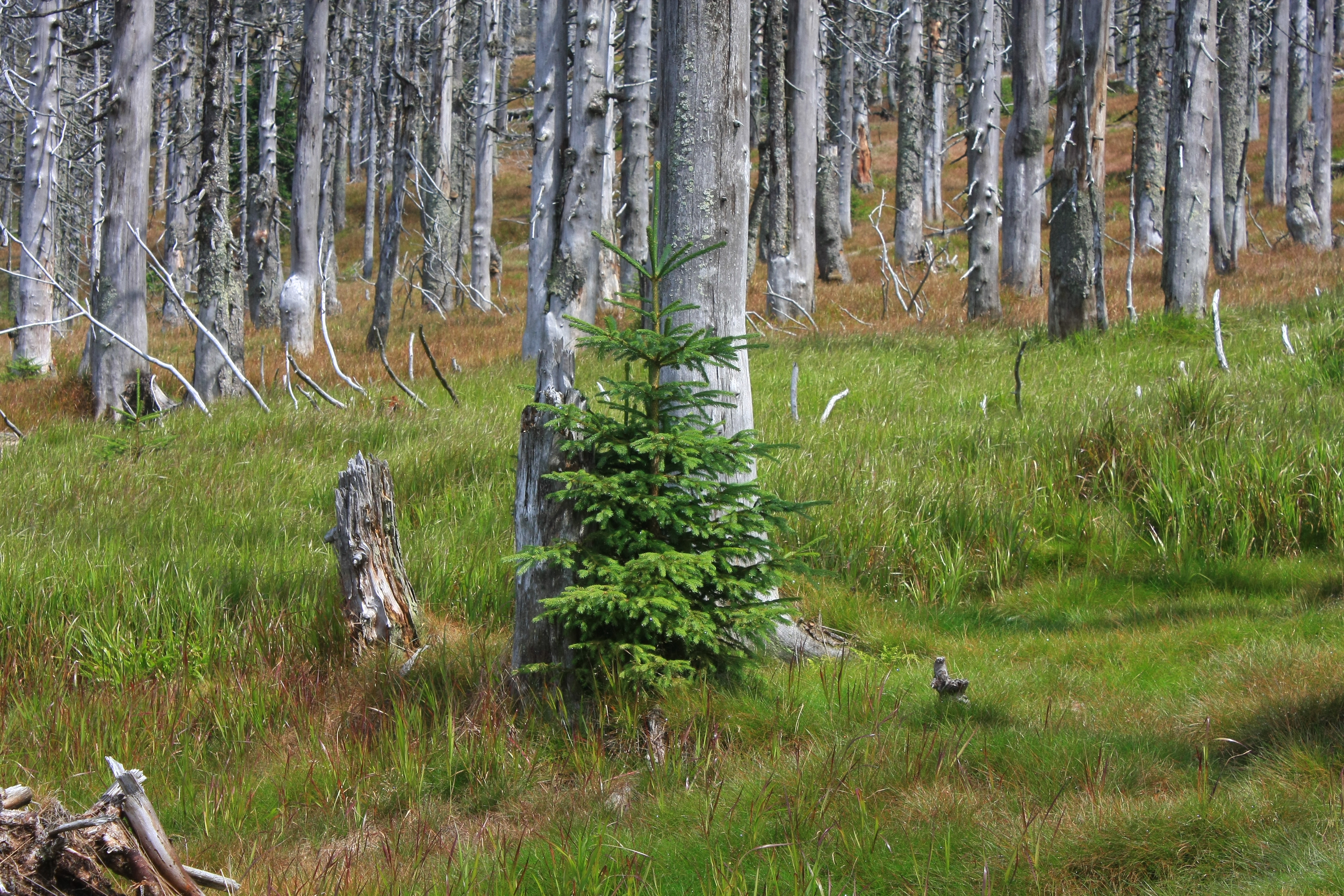 Picea abies, Rachel, Bavarian Forest Nationalpark